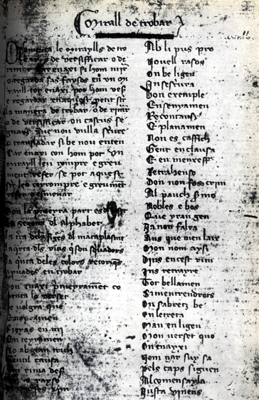 First folio of the Mirall de trobar of Berenguer d'Anoia. MS 239 in the Biblioteca de Catalunya.